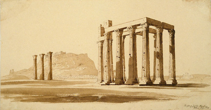 A 19th-century depiction of the Temple of Olympian Zeus in Athens, Greece.